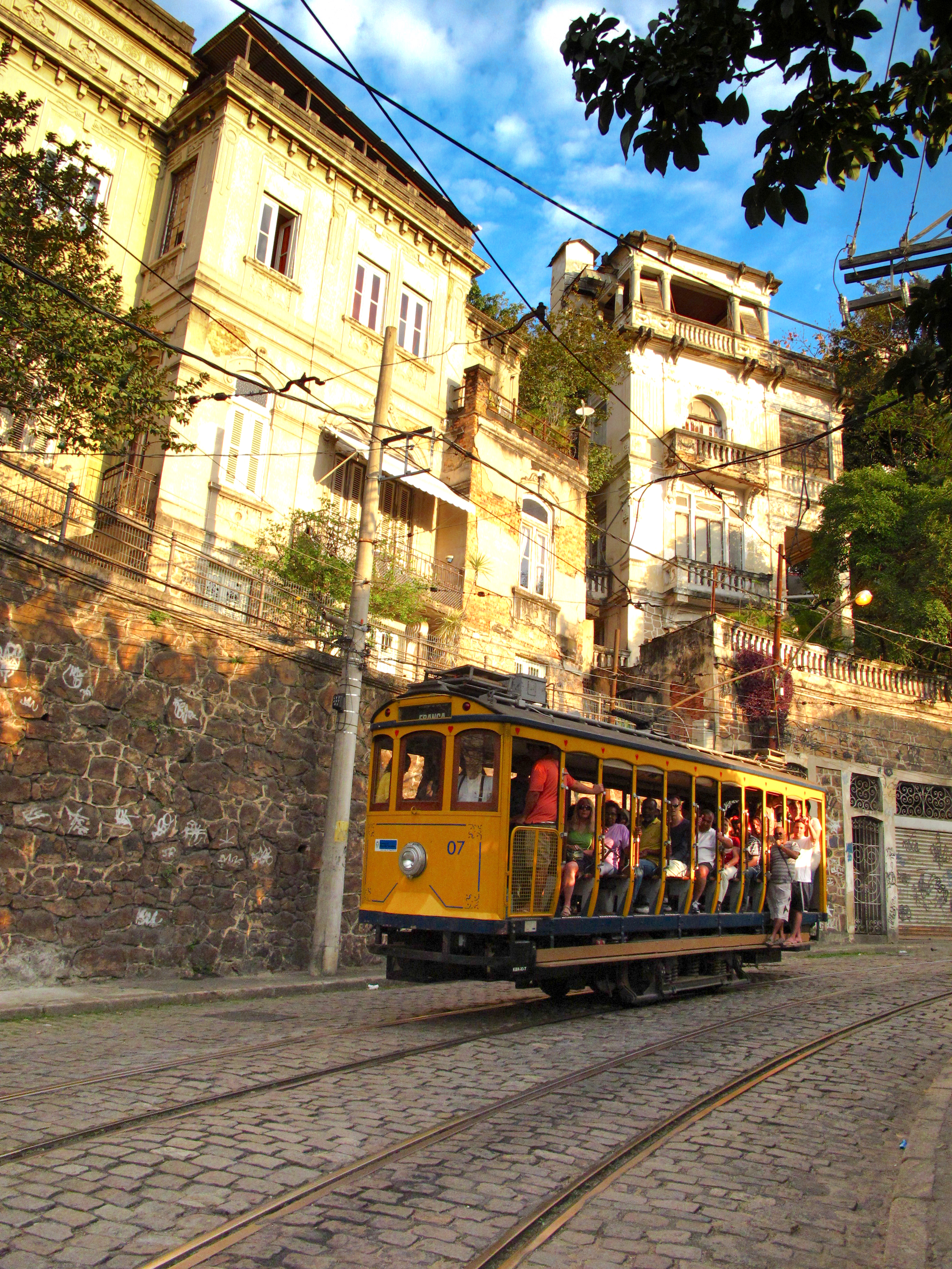 Car 07 of the Santa Teresa Tramway (in Rio de Janeiro) carrying a full load of passengers on 6 August 2011. This was only 3 weeks before the line closed for rebuilding – and replacement of the old trams with new replica-vintage trams – after a serious accident.